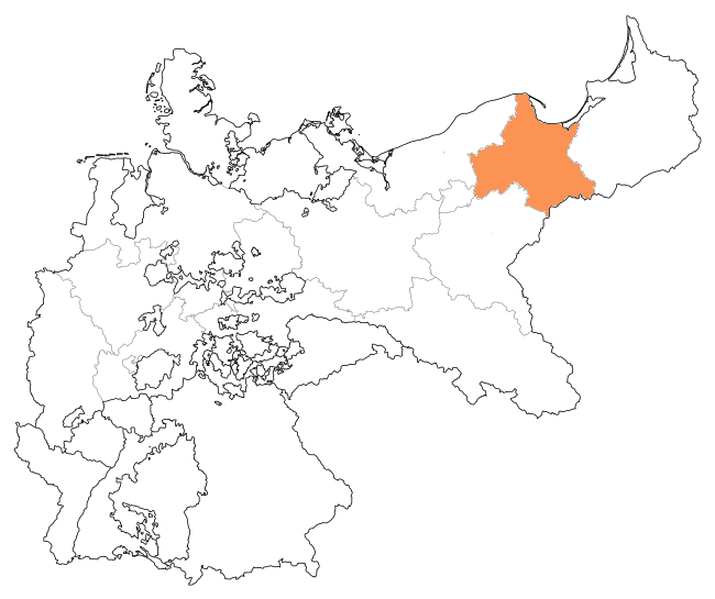 circuit of the higher regional court of Marienwerder 1879-1919